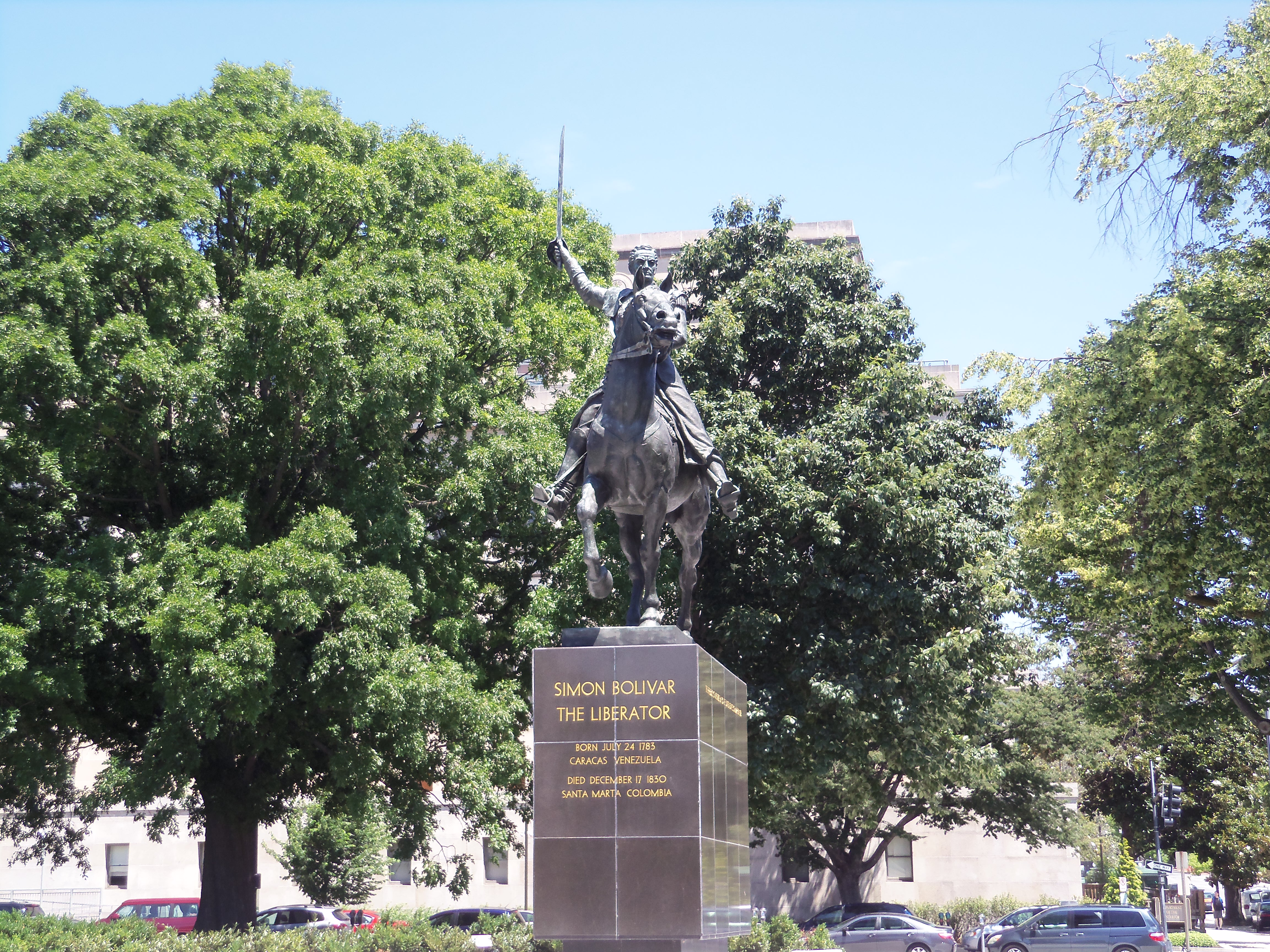 The statue of Simón Bolívar is among the statues of the Liberators of western-hemisphere countries from colonial rule found along Virginia Avenue, N.W., in Washington, D.C.